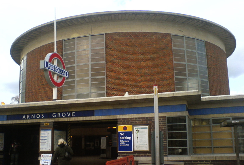 The exterior of Arnos Grove tube station in North London.